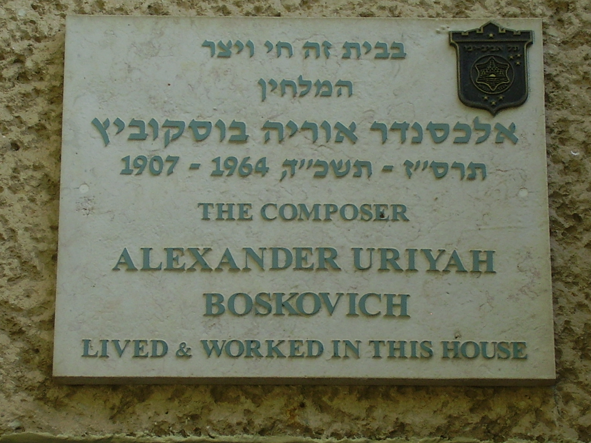 memorial plaque on the house of the composer alexander u. boskovitch in tel aviv לוחית זיכרון על ביתו של של המלחין אלכסנדר אוריה בוסקוביץ' ברח' האלקושי 3 בתל אביב